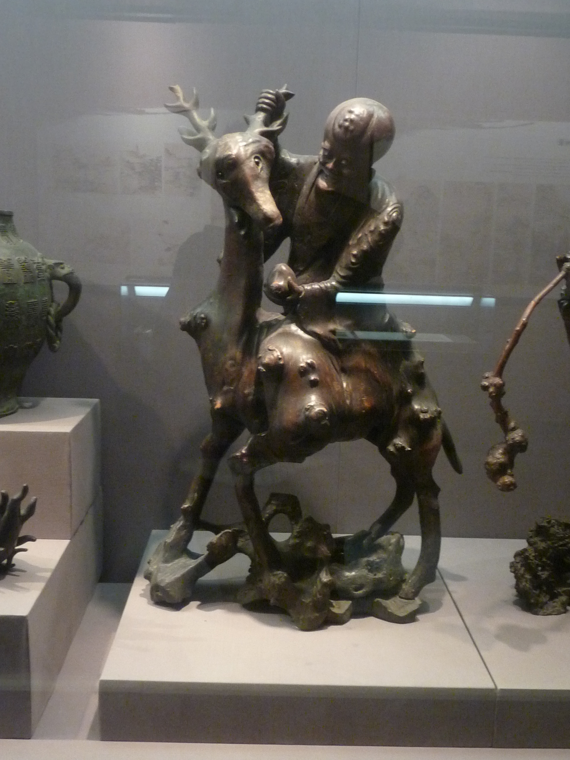 Nanjing - Chaotian Palace - Root carving in form of the God of Longevity riding a deer